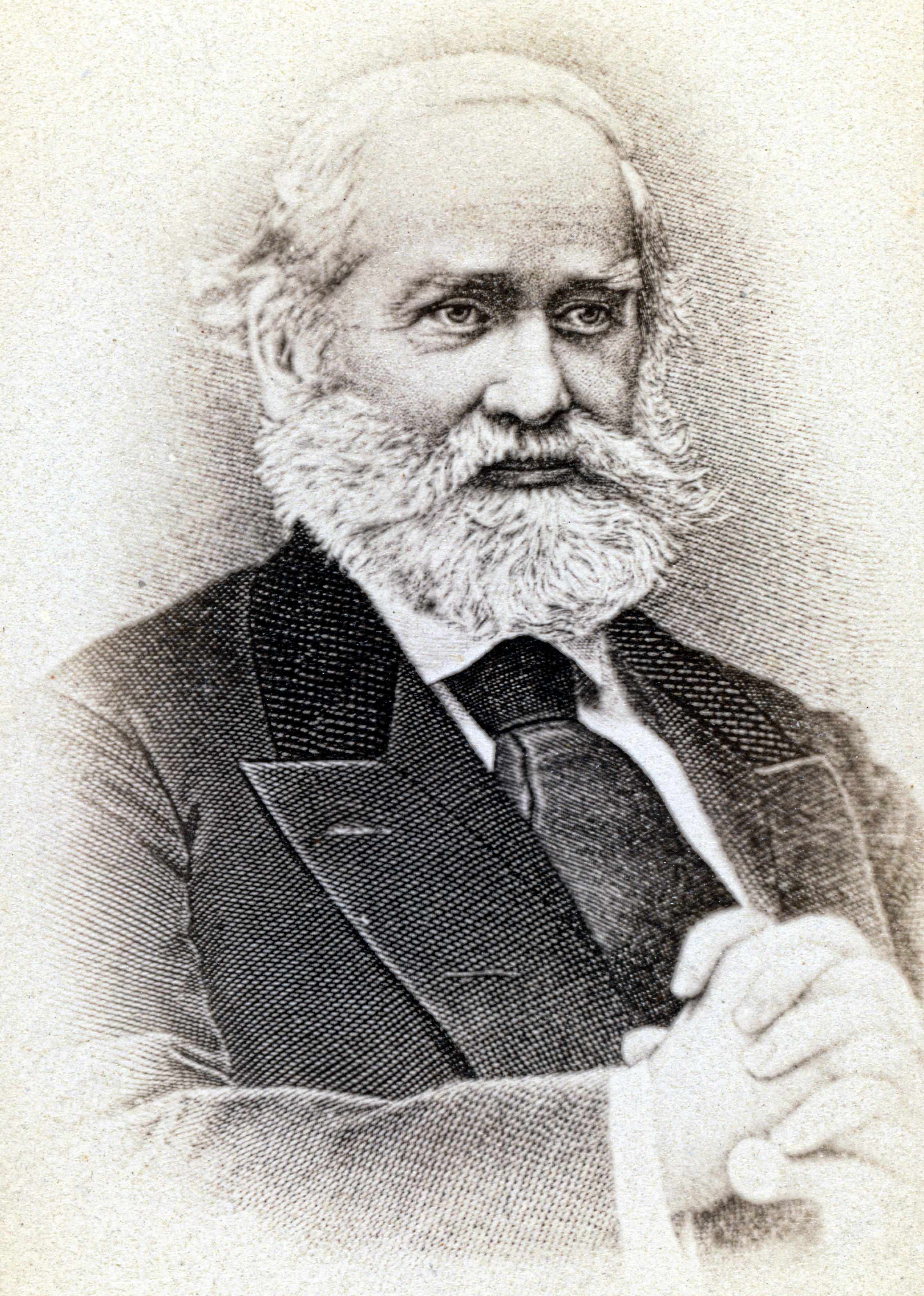 Russian historian Sergey Mikhaylovich Solovyov (1820-1879)